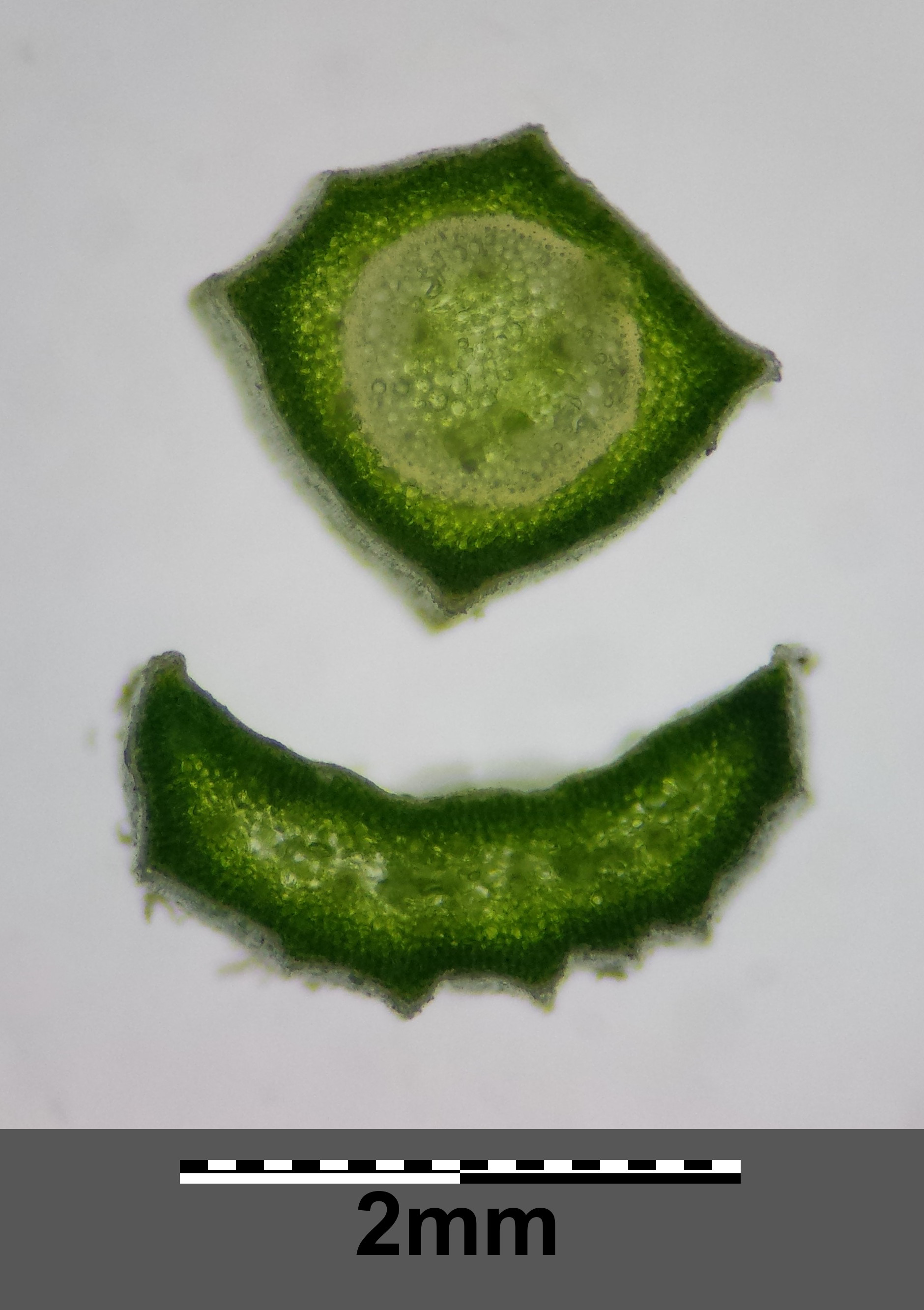 Stipe (above) and leaf (both sliced) Taxonym: Allium lusitanicum ss Fischer et al. EfÖLS 2008 ISBN 978-3-85474-187-9 Location: Waldberg in between Kleinebersdorf und Großrußbach, district Korneuburg, Lower Austria - ca. 334 m a.s.l. Habitat: semi-dry grassland